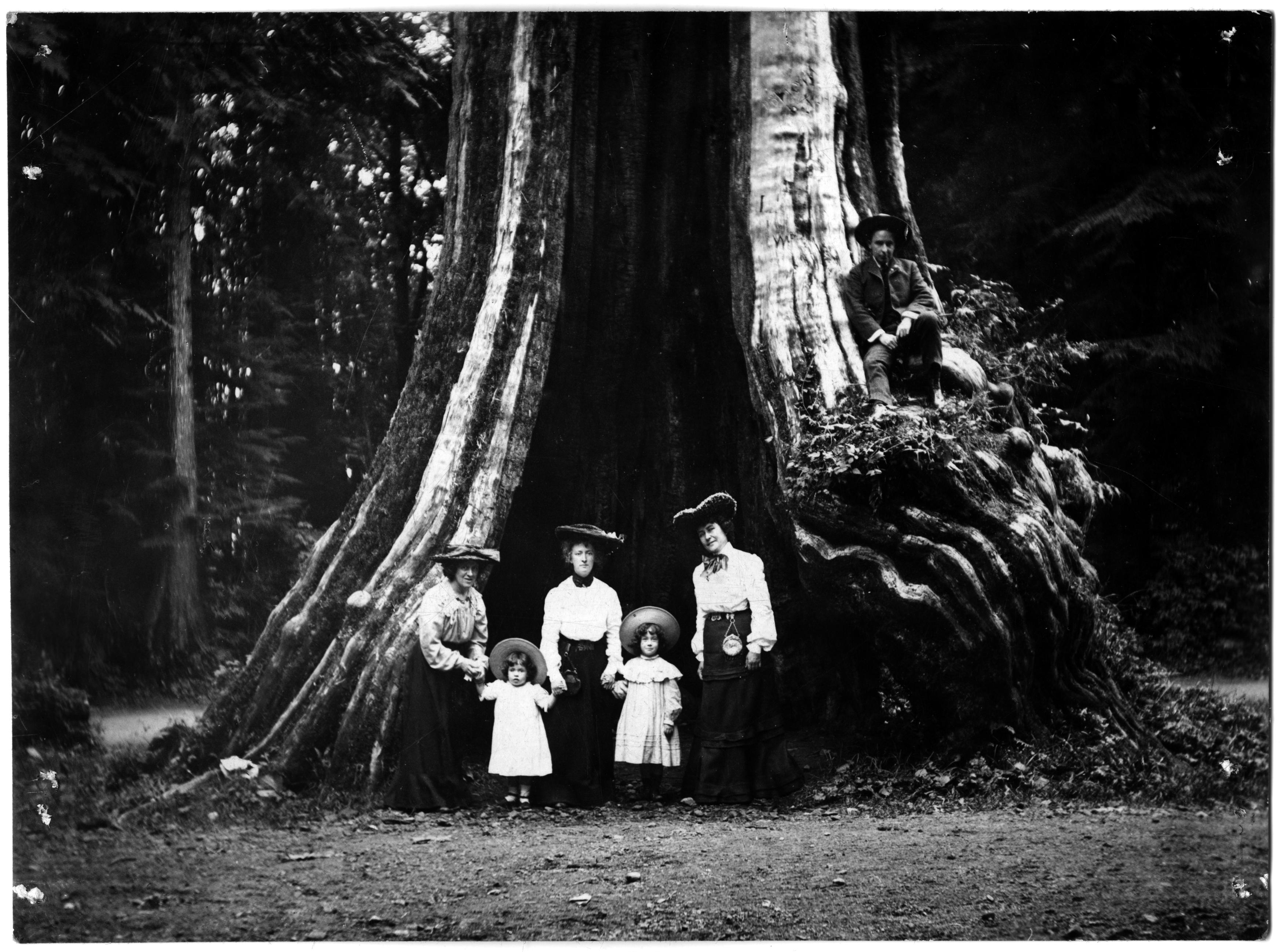 Group at Hollow Tree with Pauline Johnson on far right VPL Accession Number: 9431 Date: 1904 Photographer/Studio: Unknown Topic: Portraits, Group Parks Trees Person: Johnson, E. Pauline, 1861-1913 Location: British Columbia - Vancouver - Stanley Park - Hollow Tree More information on our historical photograph collection